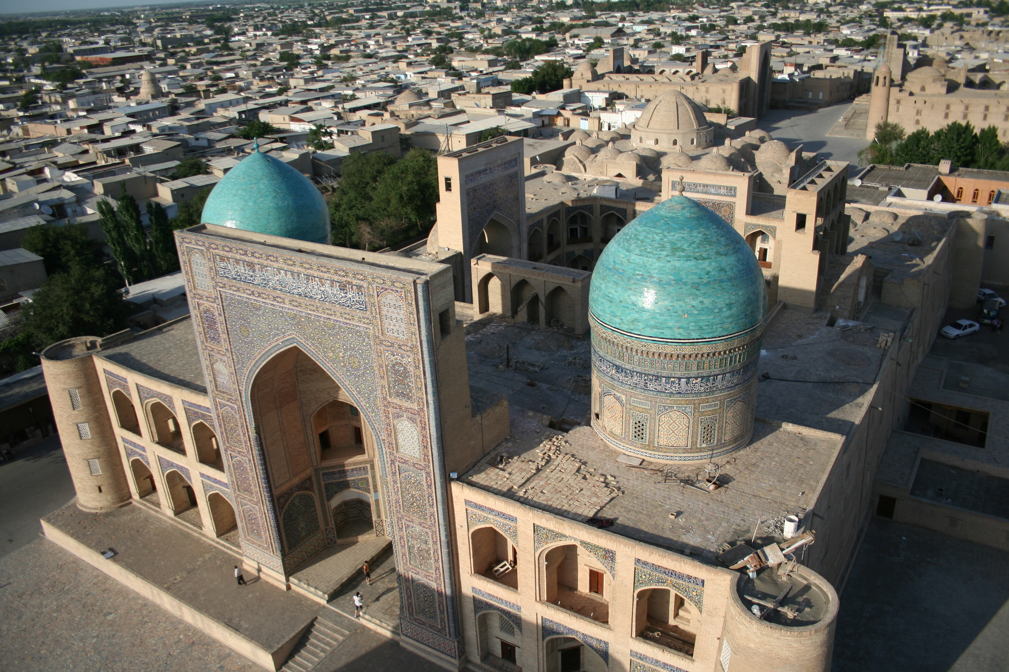 Bukhara, Mir-i Arab Madrasa